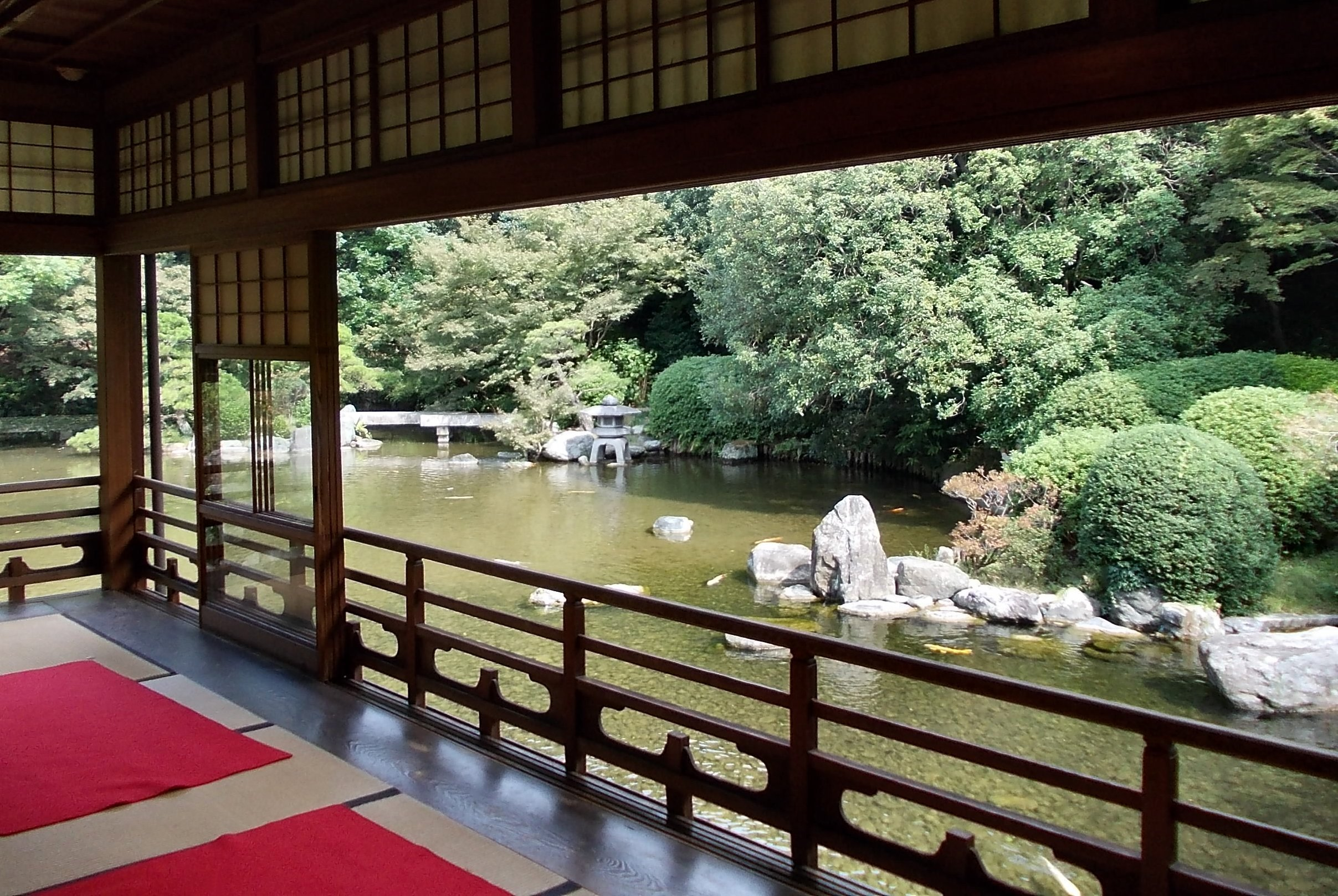 Yusentei Park, Jonan-ku, Fukuoka, Japan